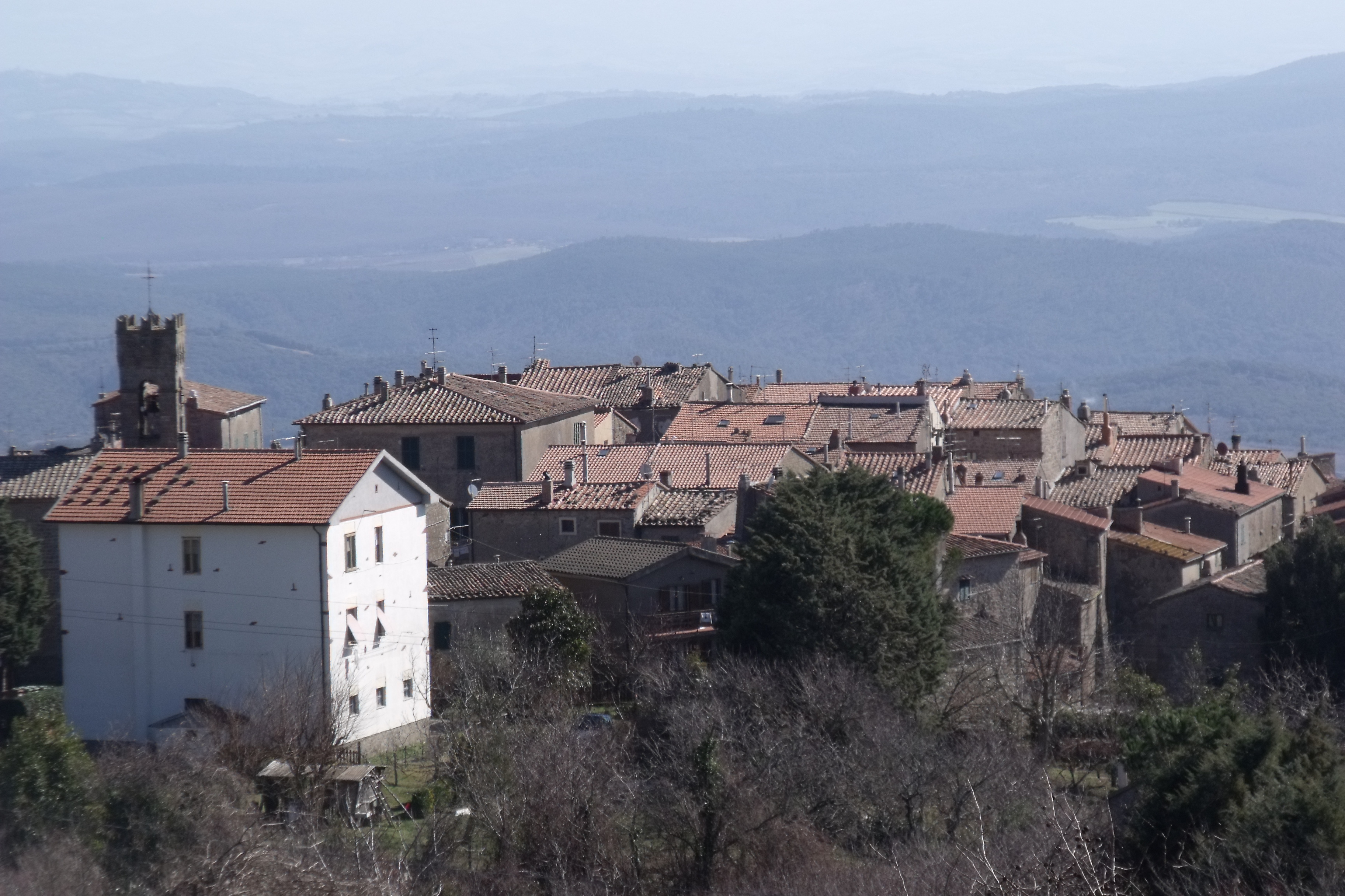 Panorama of Sassofortino, Municipality of Roccastrada, Maremma, Province of Grosseto, Tuscany, Italy